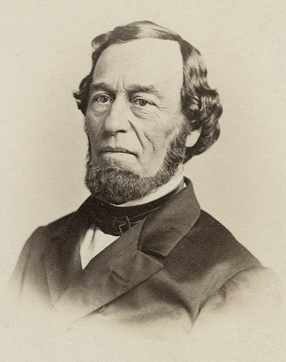 George O. Rathbun, New York Congressman.